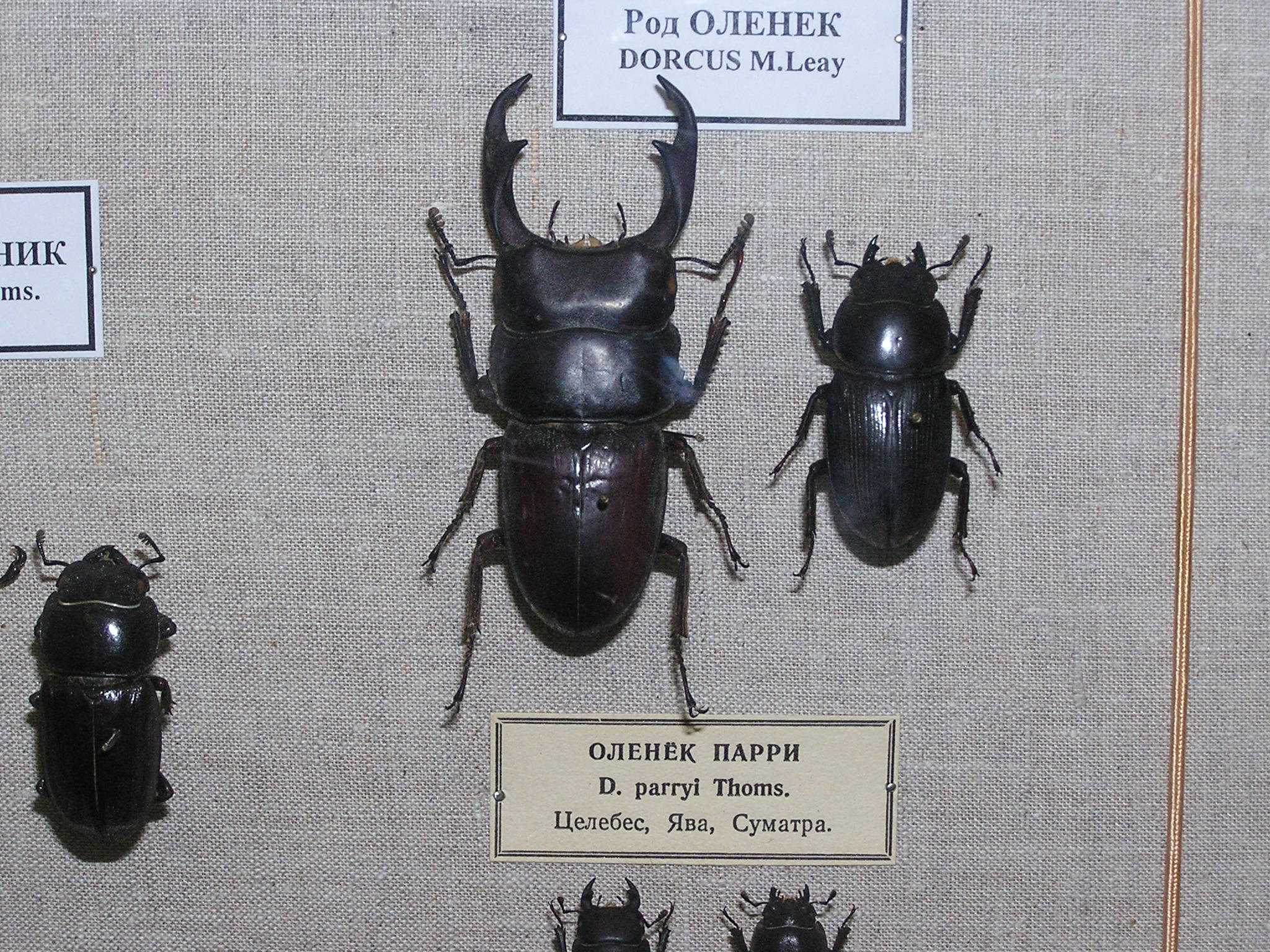 Dorcus parryi